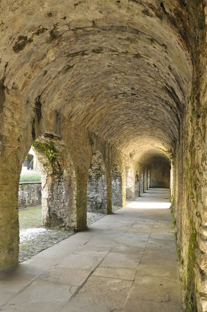 The Cloisters - Aberglasney House